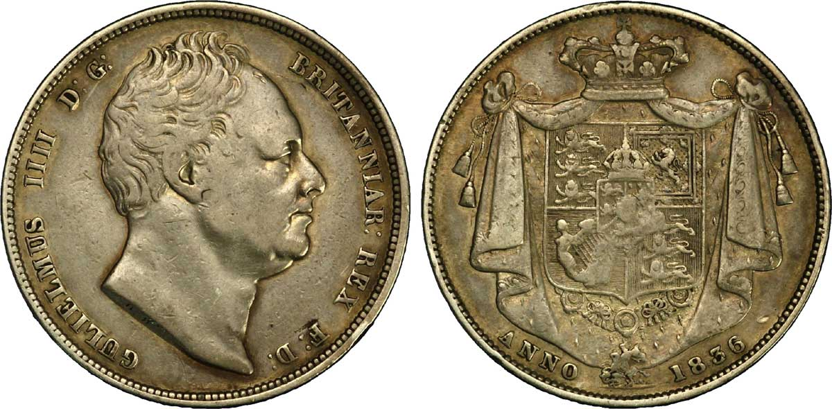 Un demi crown à l'effigie de Guillaume IV, 1836. Description revers : écu du Royaume-Uni de Grande-Bretagne et d’irlande, dans un manteau couronné .